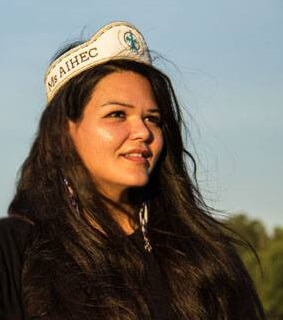 Miss American Indian (AIHEC) Robin Maxkii waits to present to an audience about education reform during Tribal College Week in Washington, D.C